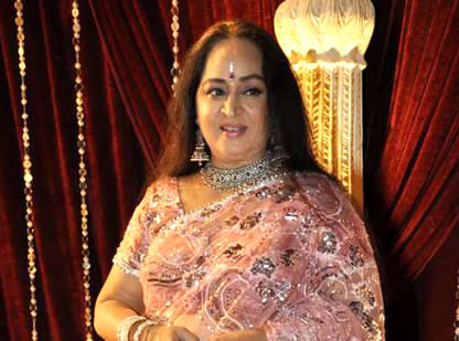 Shoma Anand at Zee Rishtey Awards